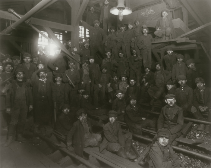 "Breaker Boys in Coal Mine, South Pittston, Pennsylvania," gelatin silver print, by American photographer Lewis W. Hine. Yale University Art Gallery, John C. Waddell Collection, gift of John C. Waddell, B.A. 1959. Courtesy of Yale University, New Haven, Conn.